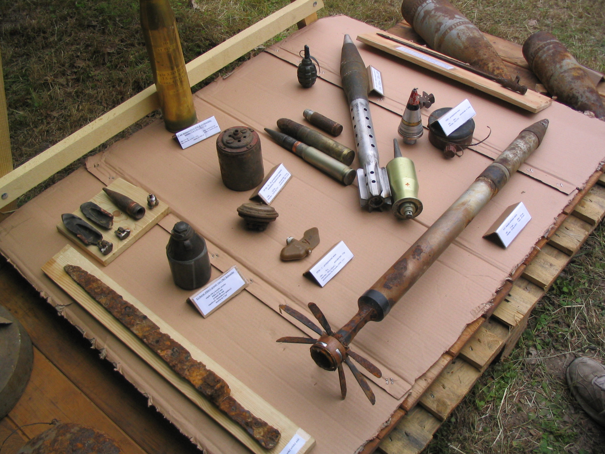 military equipment found in the former proving ground Ralsko, Czech Republic. Shown at local exhibition in 2008.